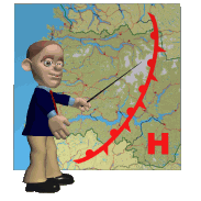 [en] weatherman [keywords: weather forecaster, meteorology, meteorologist]